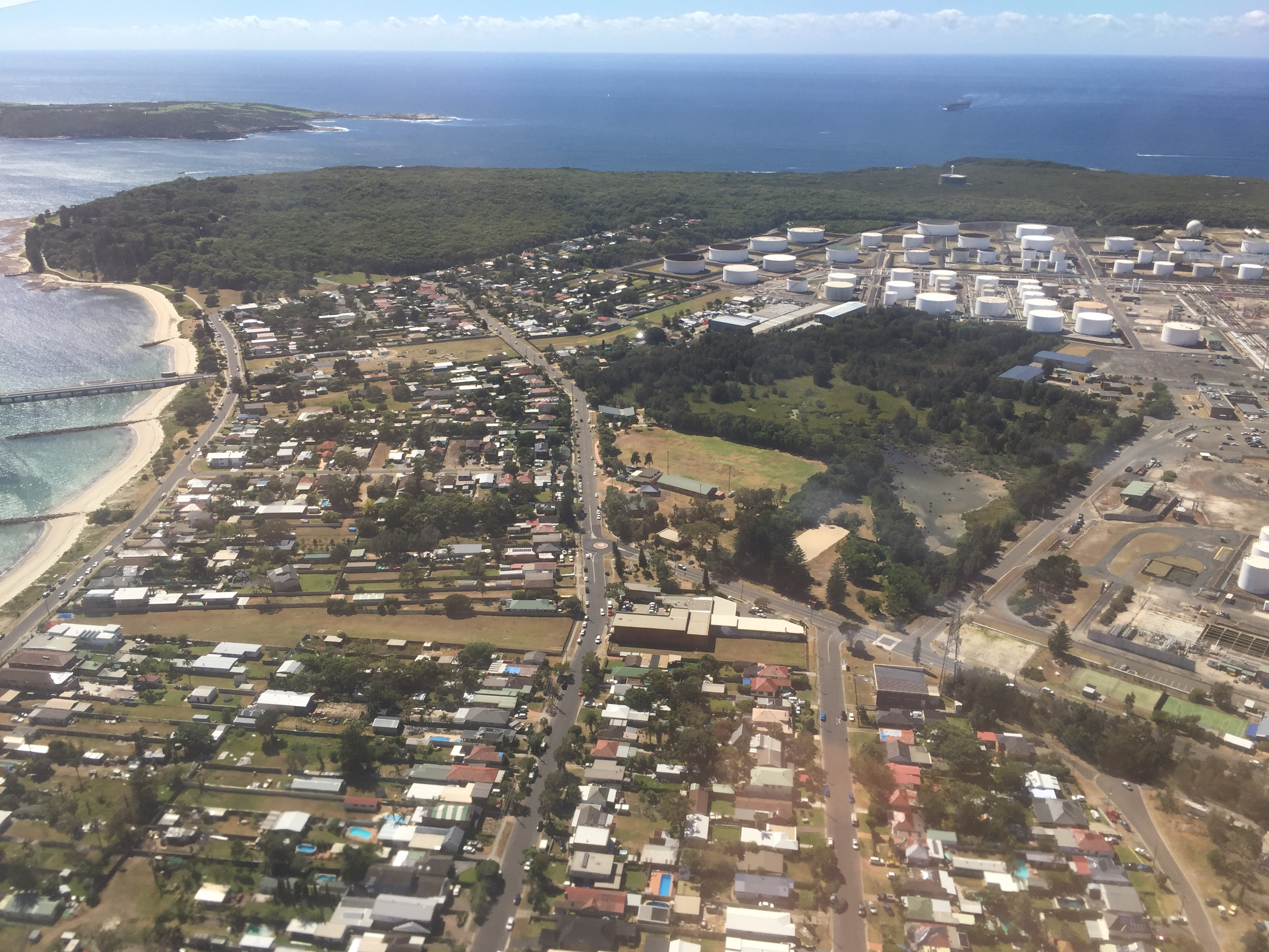 Approaching Sydney over Botany Bay